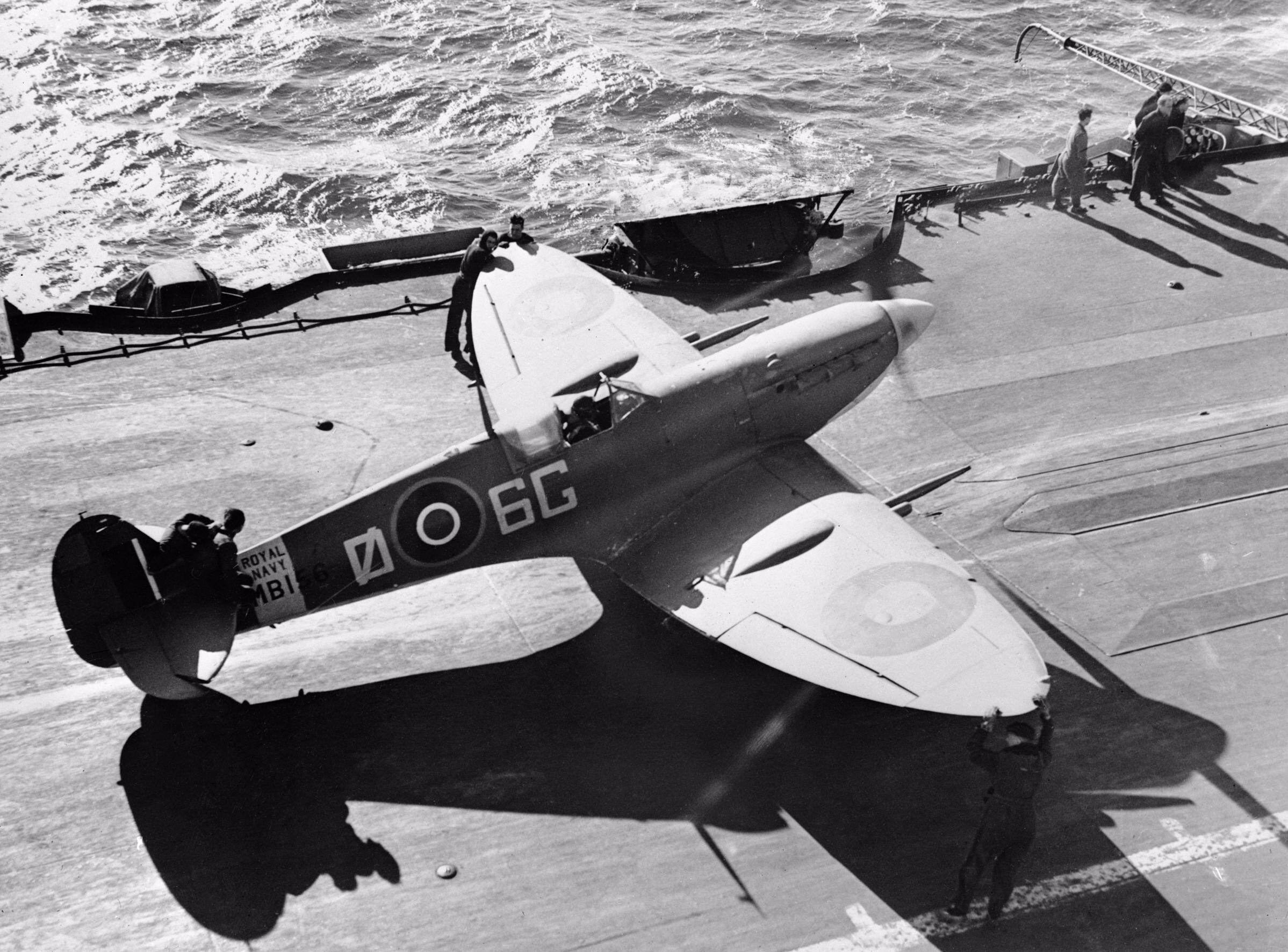 A Supermarine Seafire Mk IIc of No. 885 Naval Air Squadron on the flight deck of HMS FORMIDABLE in the Mediterranean, December 1942. A Supermarine Seafire Mark IIc of 885 Naval Air Squadron warming up its engine for take off in bright sunshine on the deck of HMS FORMIDABLE in the Mediterranean.